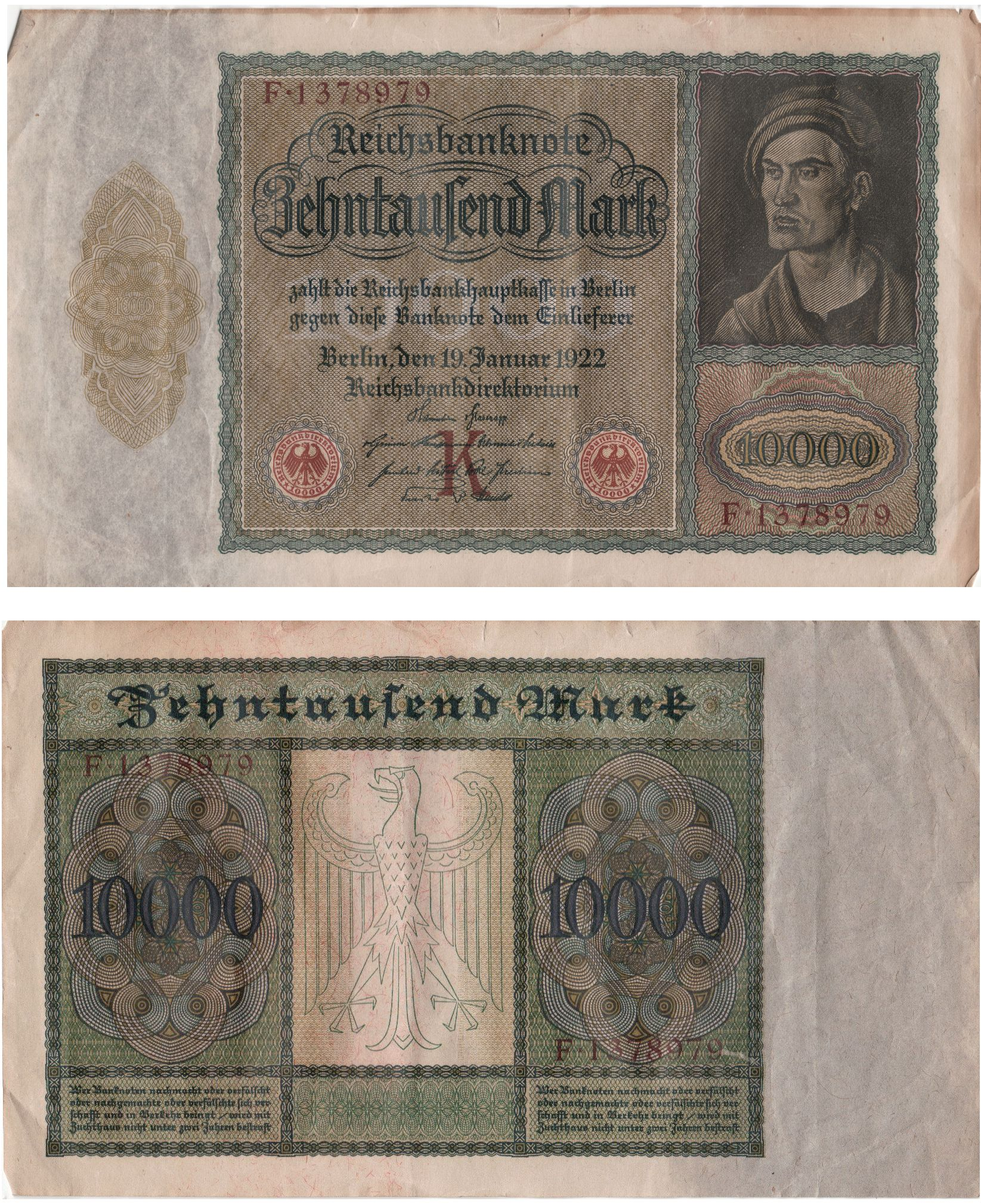 10.000 Reichsmark note from 1922-01-19.